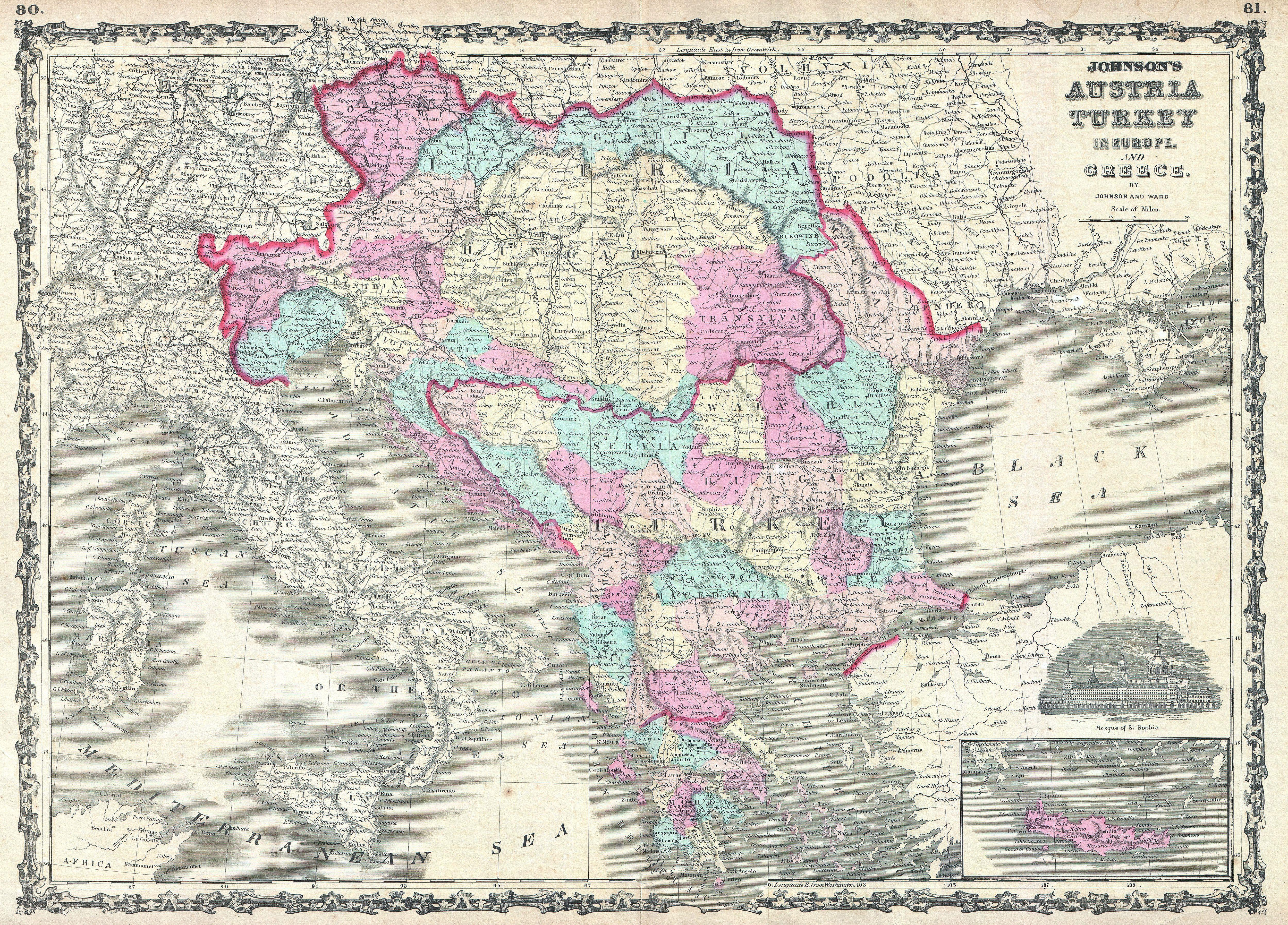 This is A. J. Johnson and Ward’s 1863 map of Austria, Turkey in Europe and Greece. Covers from Italy eastward to include all of Austria, Hungary, the Balkans (Bosnia, Serbia, Albania, Croatia, Macedonia, Bulgaria, Rumania, etc.), Greece and parts of Turkey. Color coded by district. Shows major roadways, cities, rivers, trains and ferry crossings. Lower right quadrant offers a view of the Mosque of St. Sophia in Istanbul. Features the strapwork border common to Johnson’s atlas work from 1860 to 1863. Steel plate engraving prepared by A. J. Johnson for publication as page nos. 85-86 in the 1863 edition of his New Illustrated Atlas… This is the first edition of the Johnson’s Atlas to bear the Johnson and Ward imprint.